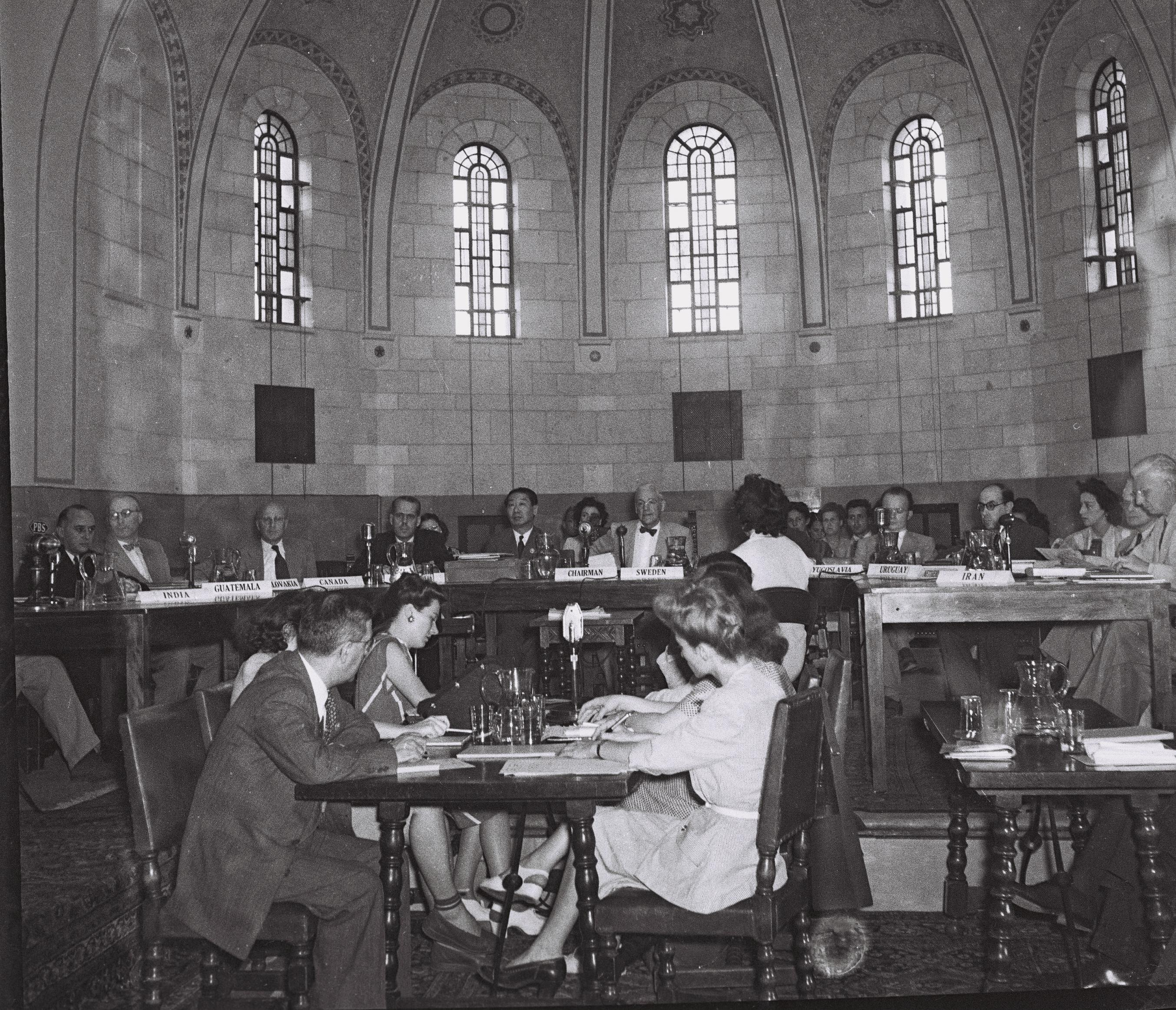 THE 11 MEMBERS OF UNSCOP DURING ONE OF THEIR SESSIONS AT THE Y.M.C.A. IN JERUSALEM.